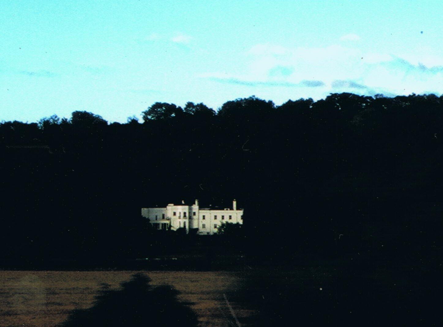 photo (R. de Salis), August 2007, of New house/The Grotto, near Lower Basildon but in the parish of Streatley, Berkshire. Early C18th house, (a de facto dowe house for the big house up the hill), the site of Lady Fane's grotto, once a marvel of the county.Rodolph 10:19, 25 October 2007 (UTC)